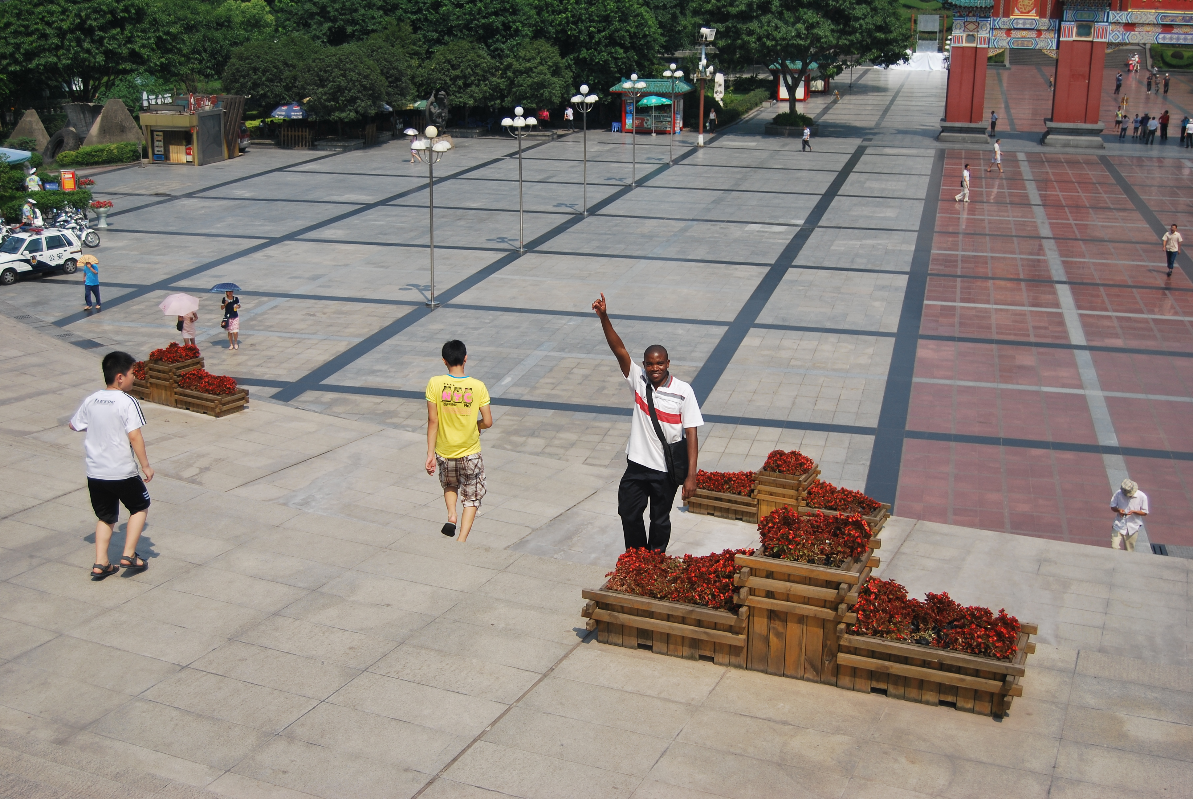 My second museum i visited after Nanjing Museum in China.This is very wonderful museum